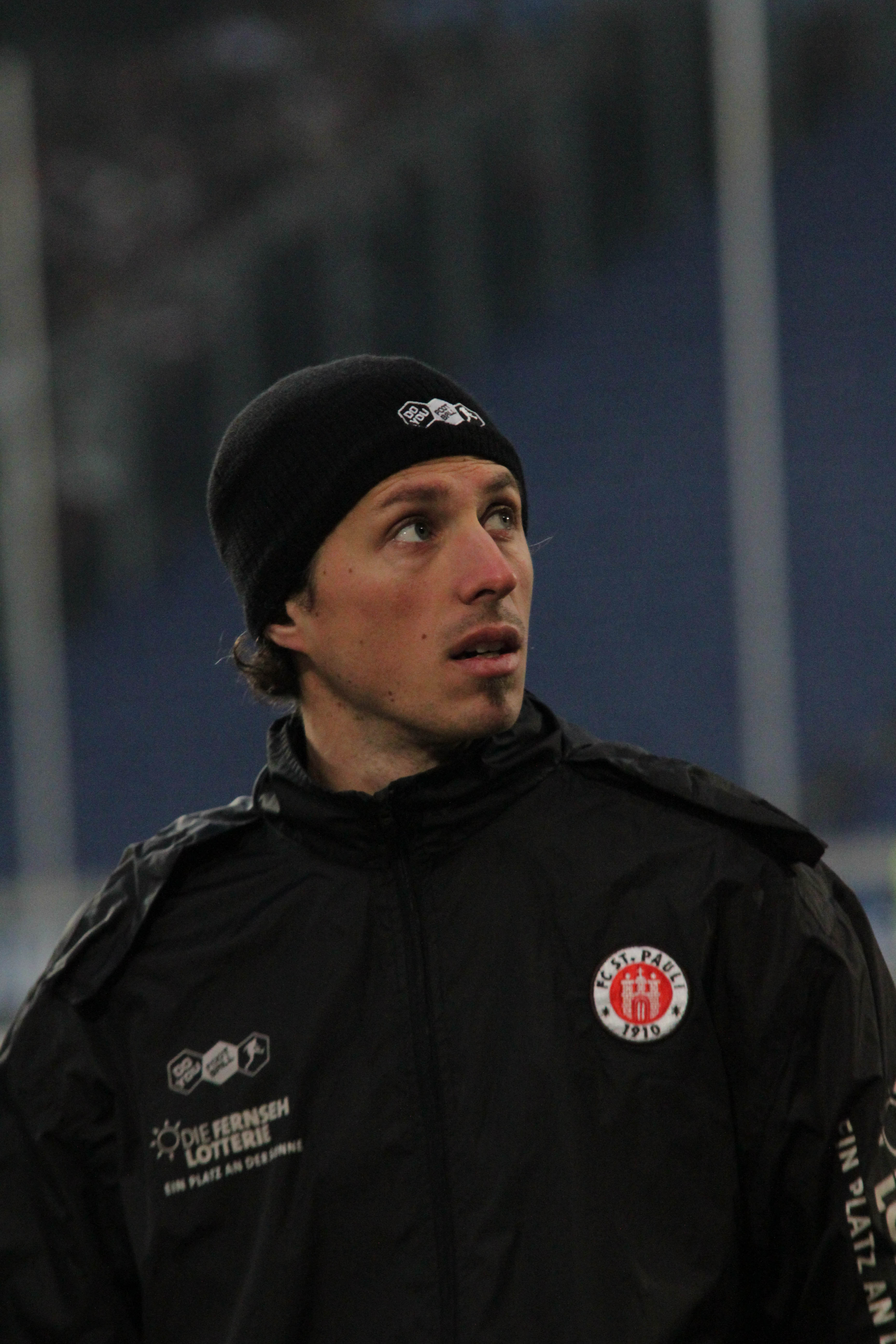 German football coach Jan-Moritz Lichte